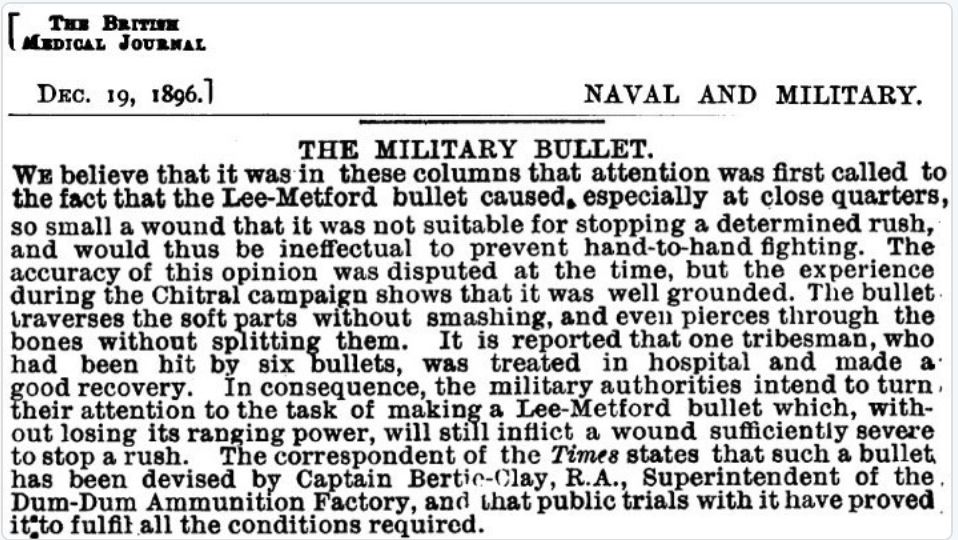 Br Med J 1896;2:1810 - 19 December 1896. Composite image merged from two columns (Surg Lt Cdr Jowan Penn-Barwell)